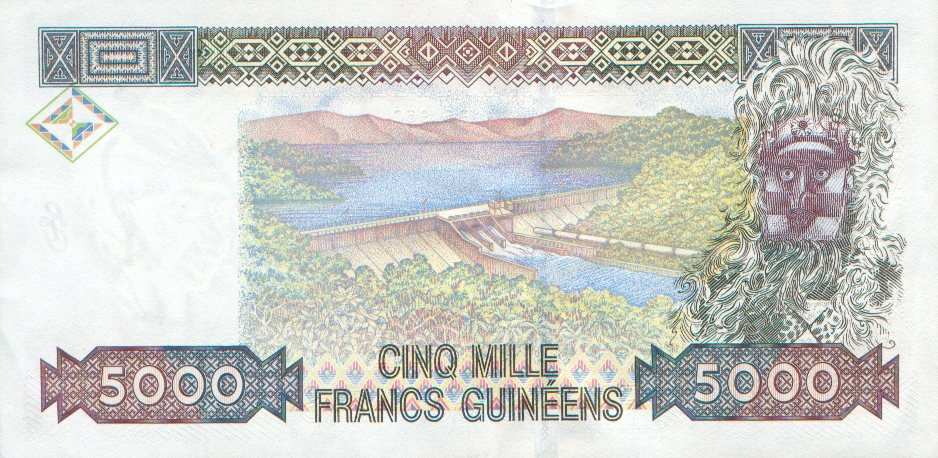 banknote of GNF 5000. issued 1998. Republic of Guinea. showing a Dam and a traditional mask